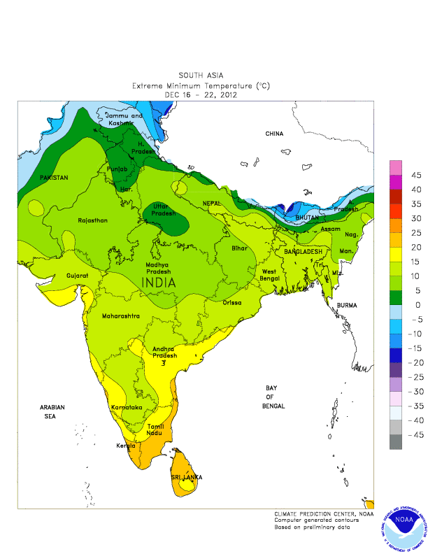 South Asia: Extreme minimum temperature , computer generated colours, based on preliminary data